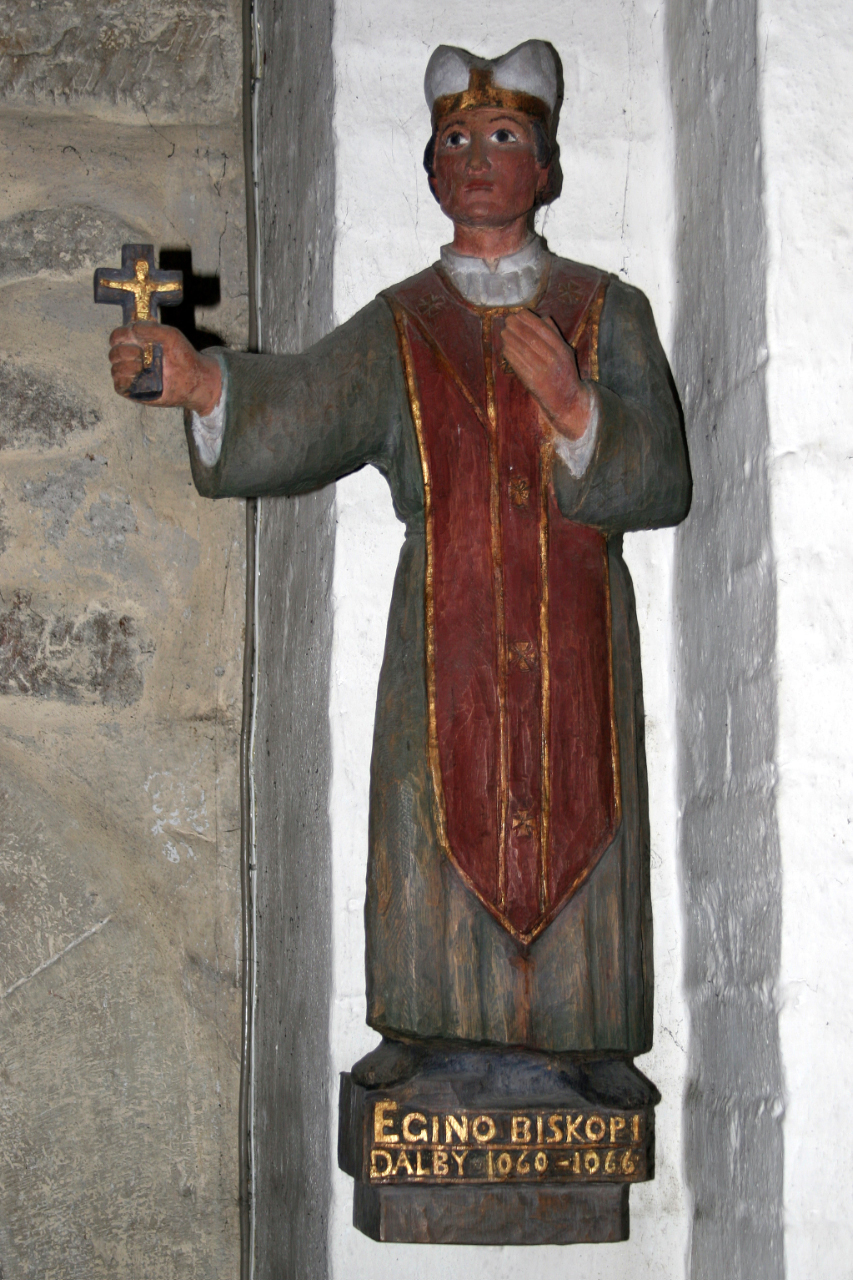 Egino, deceased in 1072, first and only Bishop of Dalby and later second Bishop of Lund. The wooden figurine sits on the wall of the church in Dalby.